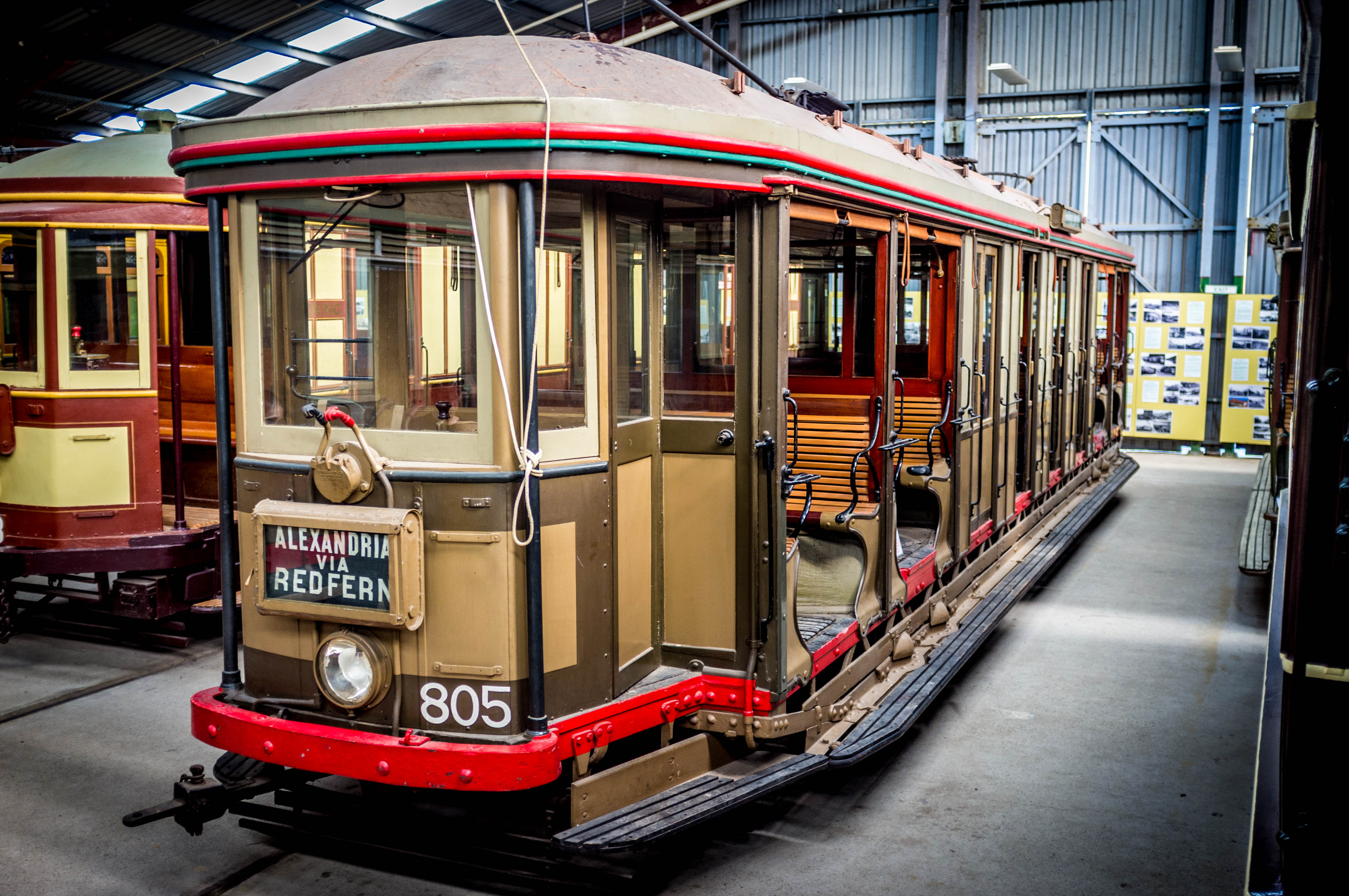 NSWDRTT 'Toastrack' O-class Tram 805